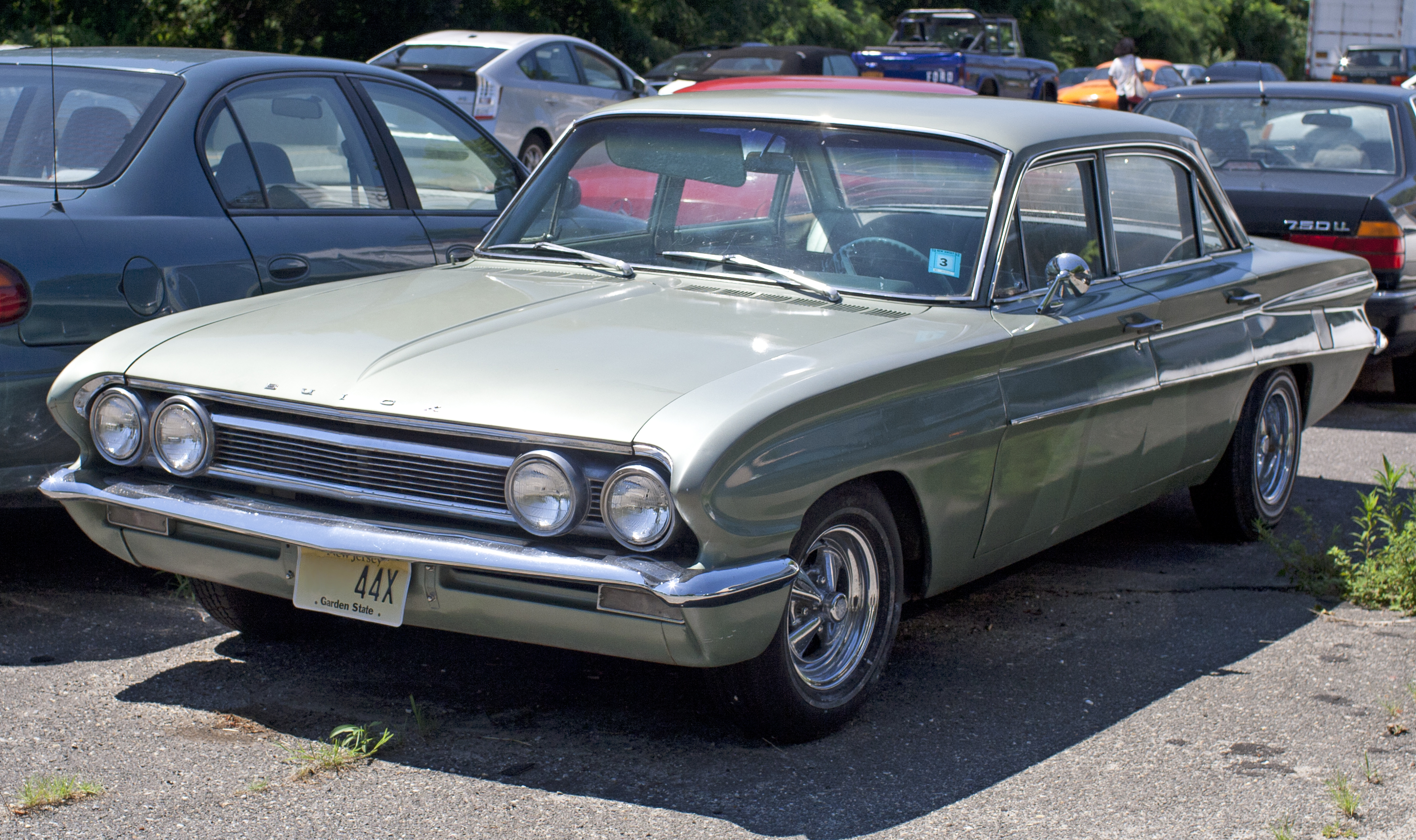 1962 Buick Special DeLuxe, sadly missing portholes and chrome trim on the left front fender.